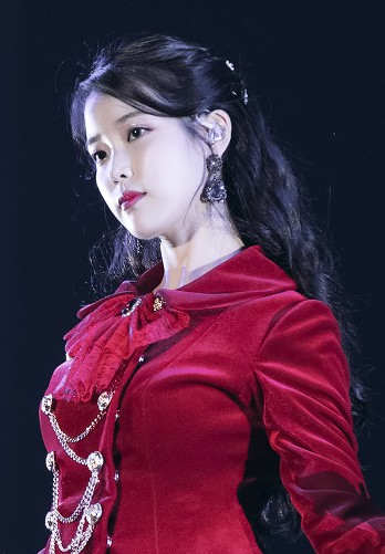 IU at her concert "dlwlrma", 18 November 2018